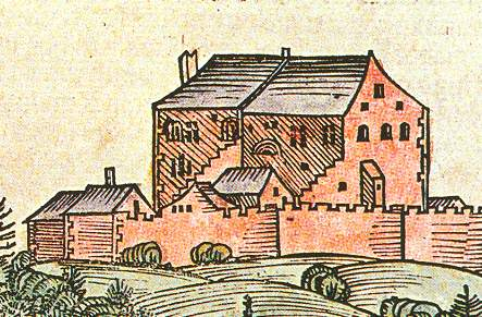 Hohensalzburg Castle. This is one of the earliest depiction, from the Schedel'sche Weltchronik.